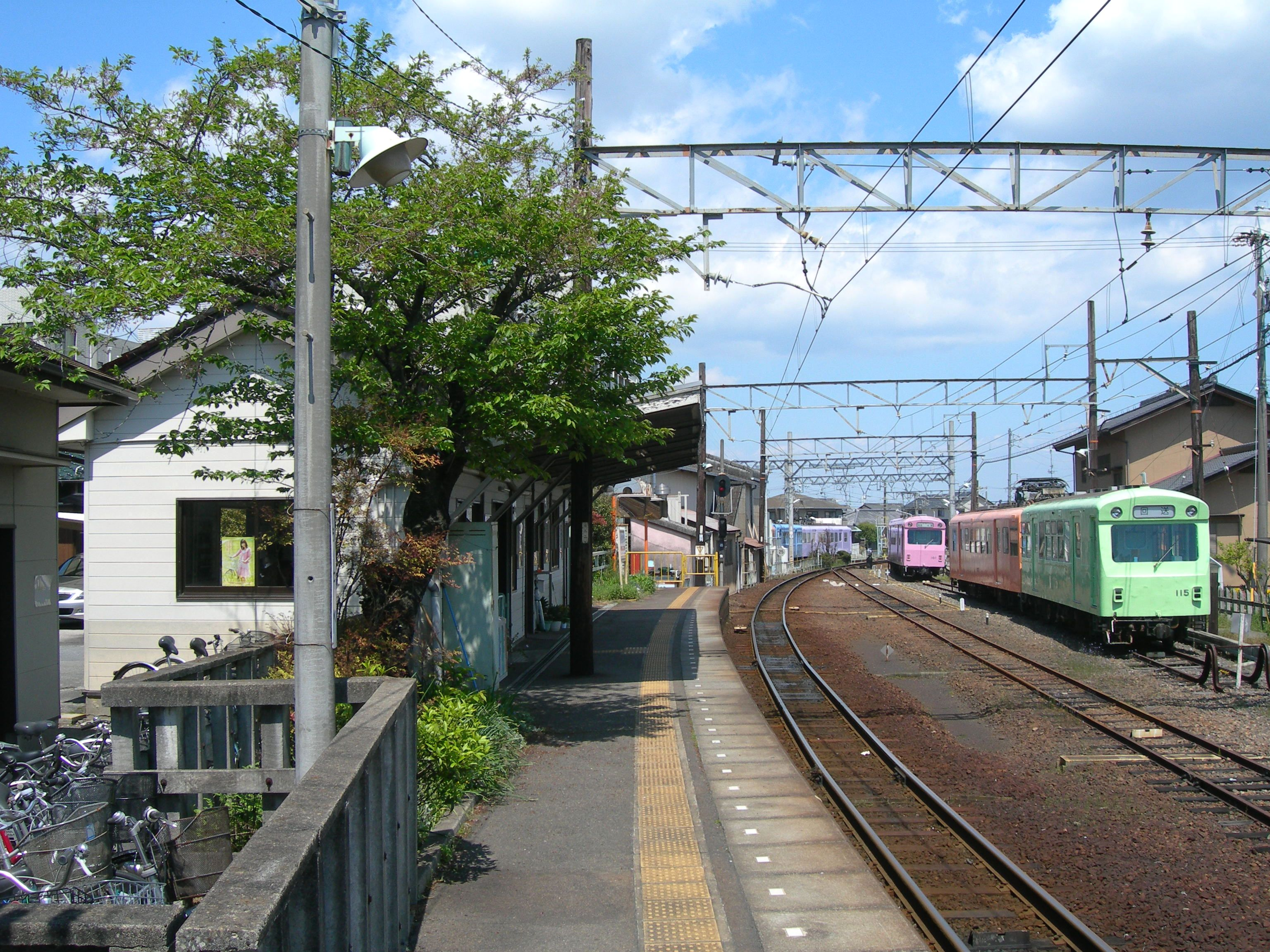 Utsube Station platfrom